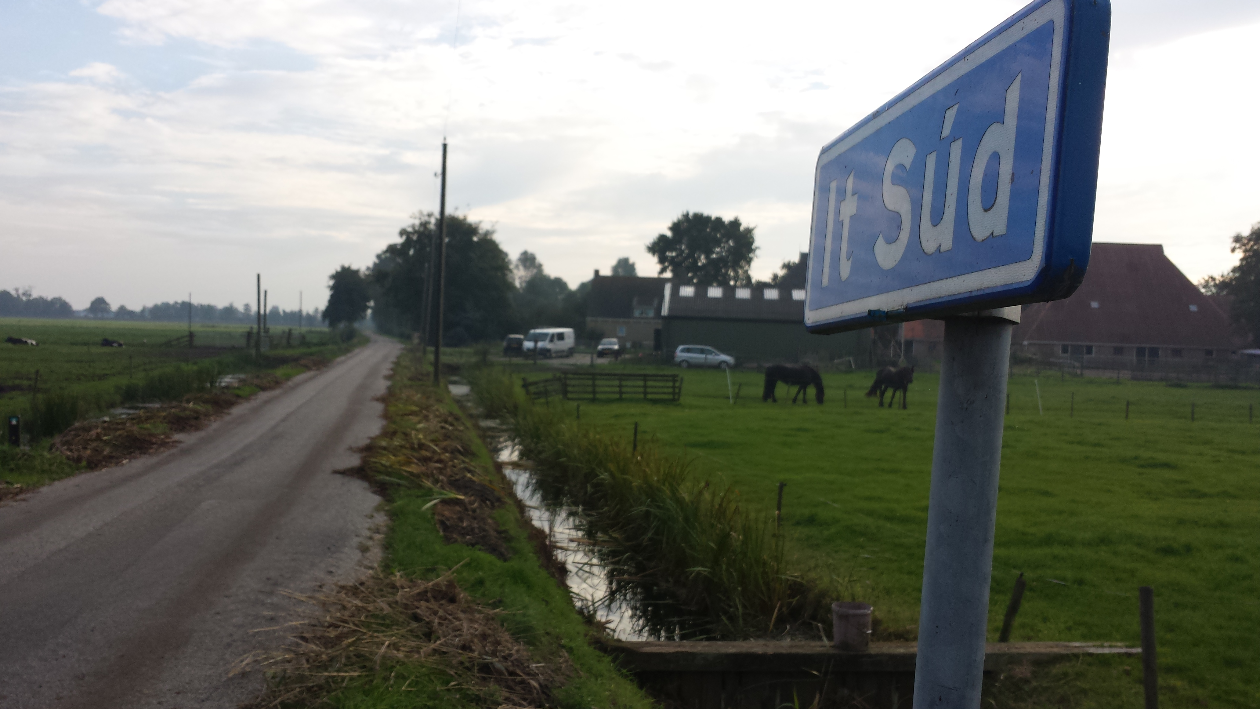 Town of Joure, country road It Súd. Soon to be part of neighbourhood Broek-Zuid.